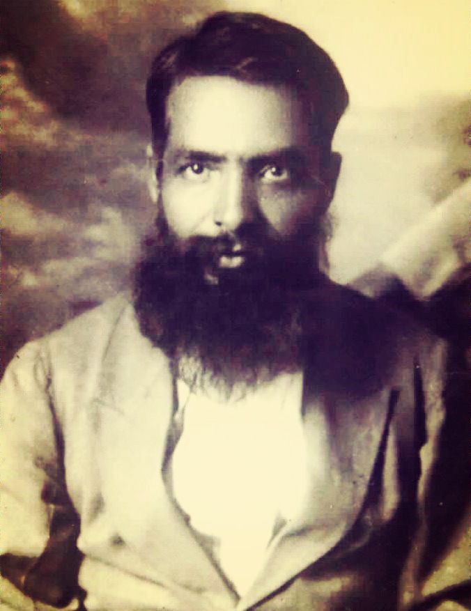 Photo of Faqir Chand, a saint of Radhasoami lineage